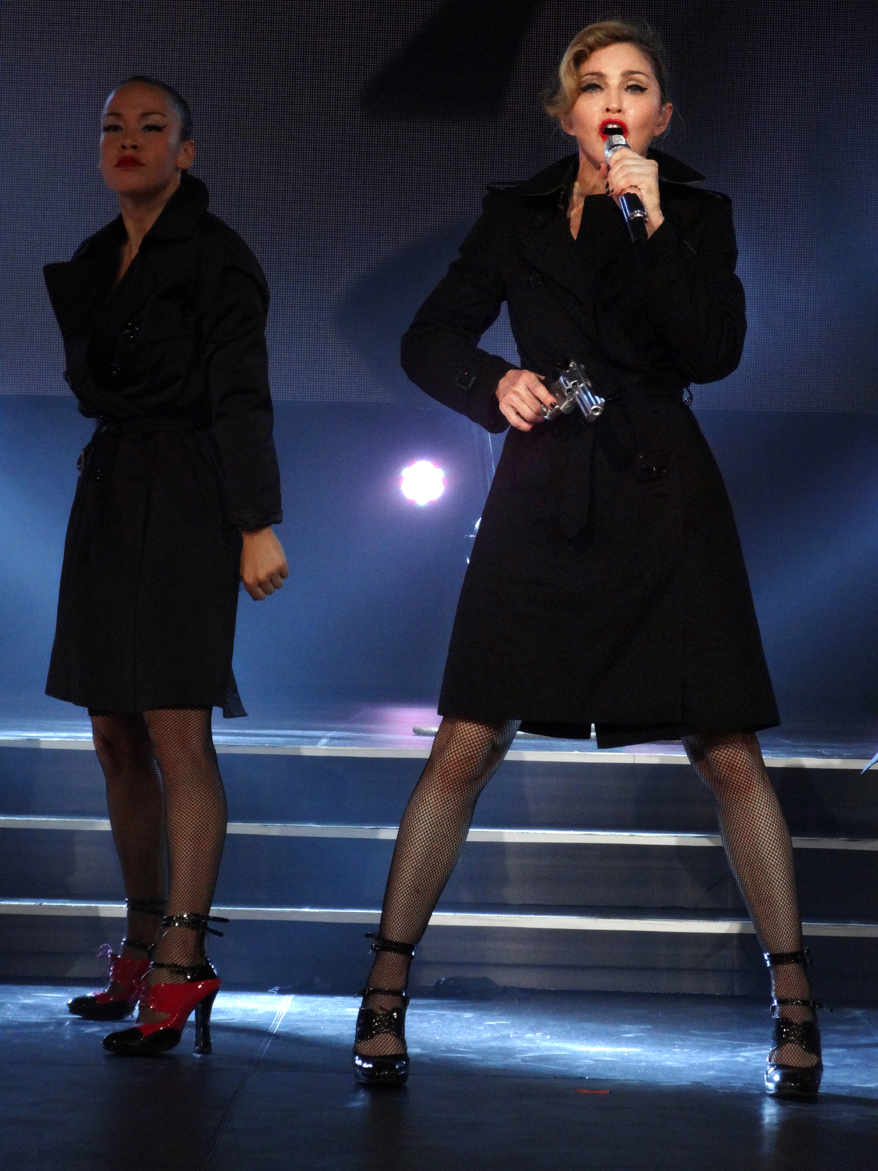 Madonna performing a mashup of "Die Another Day" and "Beautiful Killer" during her "MDNA à l'Olympia" showcase in Paris, France on July 26, 2012.